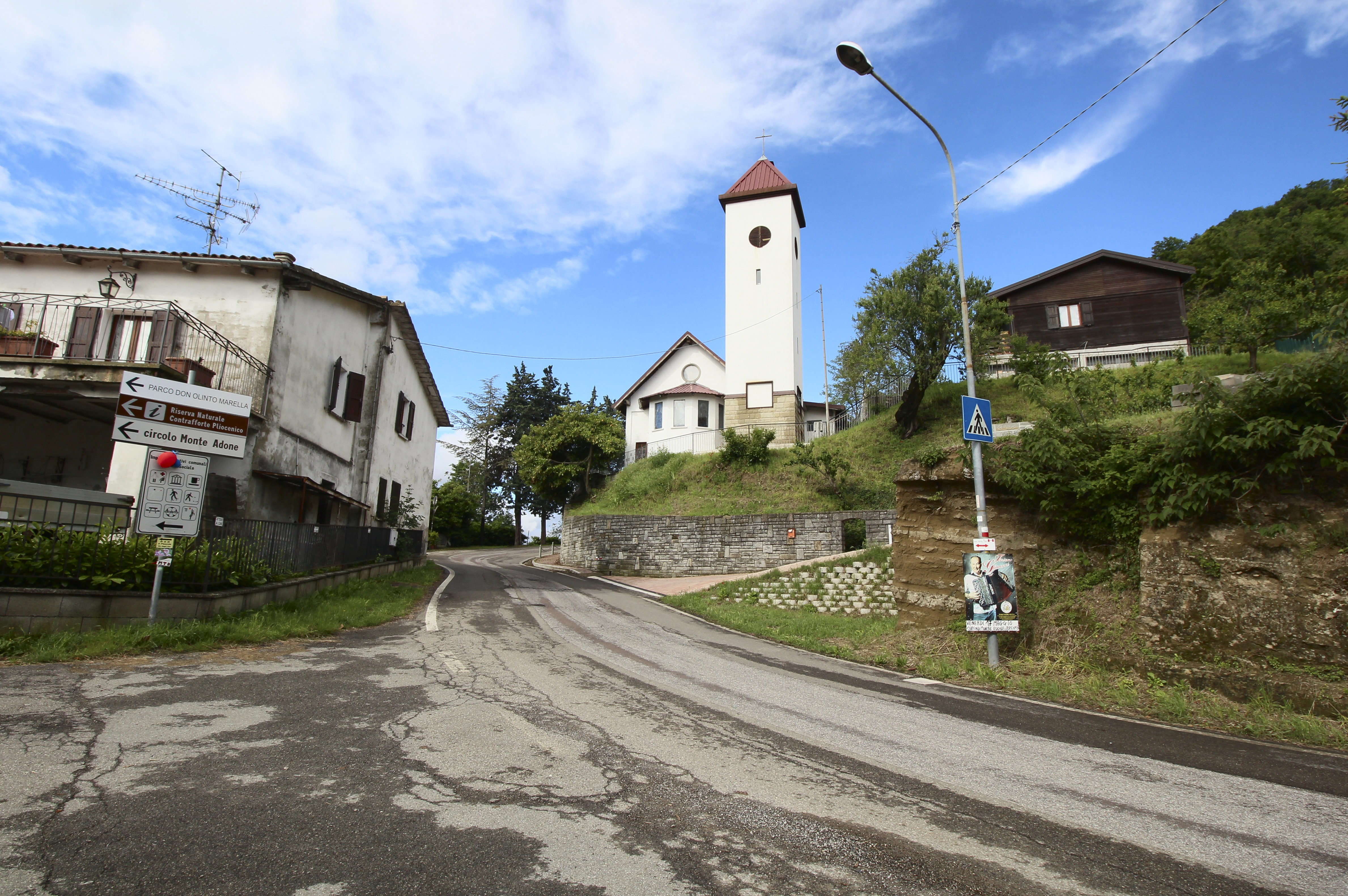 Brento, hamlet of Monzuno, metropolitan city of Bologna, Emilia-Romagna, Italy